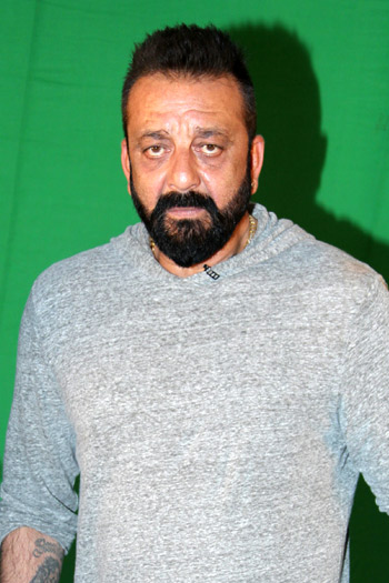 Sanjay Dutt snapped promoting his film Bhoomi.